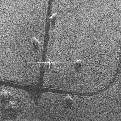 SAR image from AN/APG-81